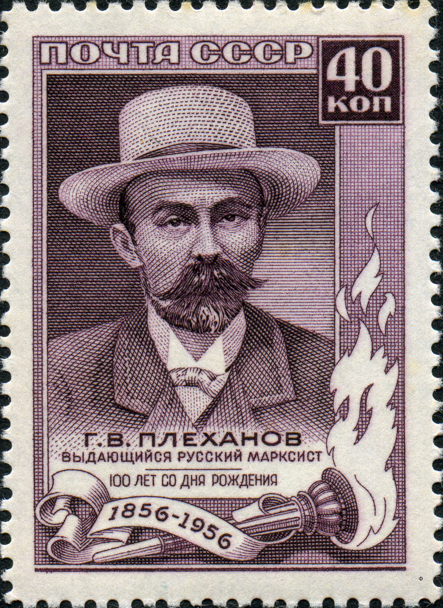 USSR postage stamp, 1957, 100th birthday anniversary of Georgi Plekhanov, 40 kop., CFA # 1998.